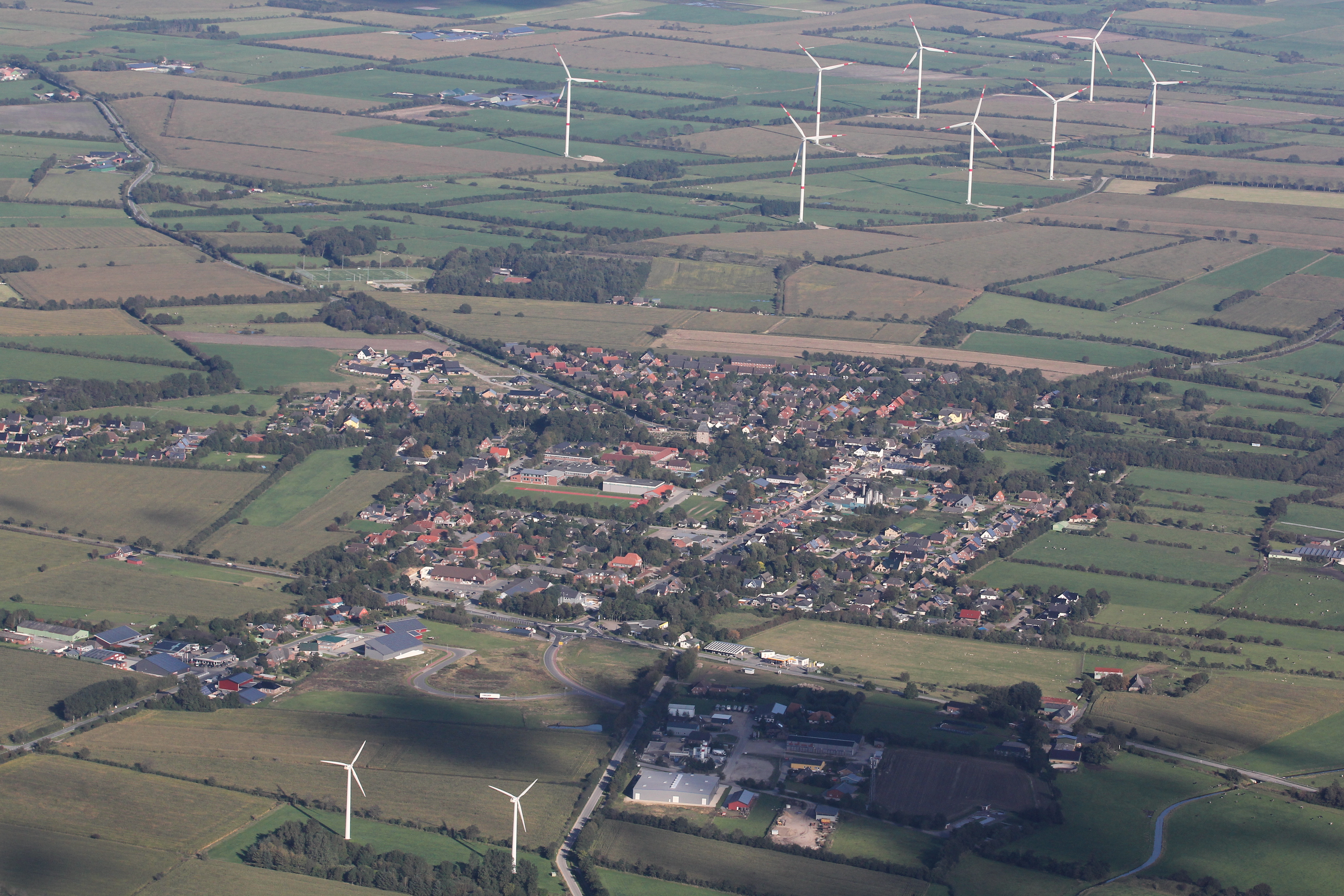 Aerial photograph of the village of Viöl, Kreis Nordfriesland